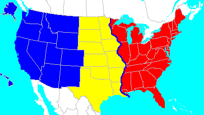 Map of the historic division between K and W broadcasting station call letter assignments. The blue section in the west has normally received K calls, while the eastern red section has normally received W. The yellow section in the middle received W calls from 1912 until January 1923, when a boundary shift to the Mississippi River transferred it to K territory.